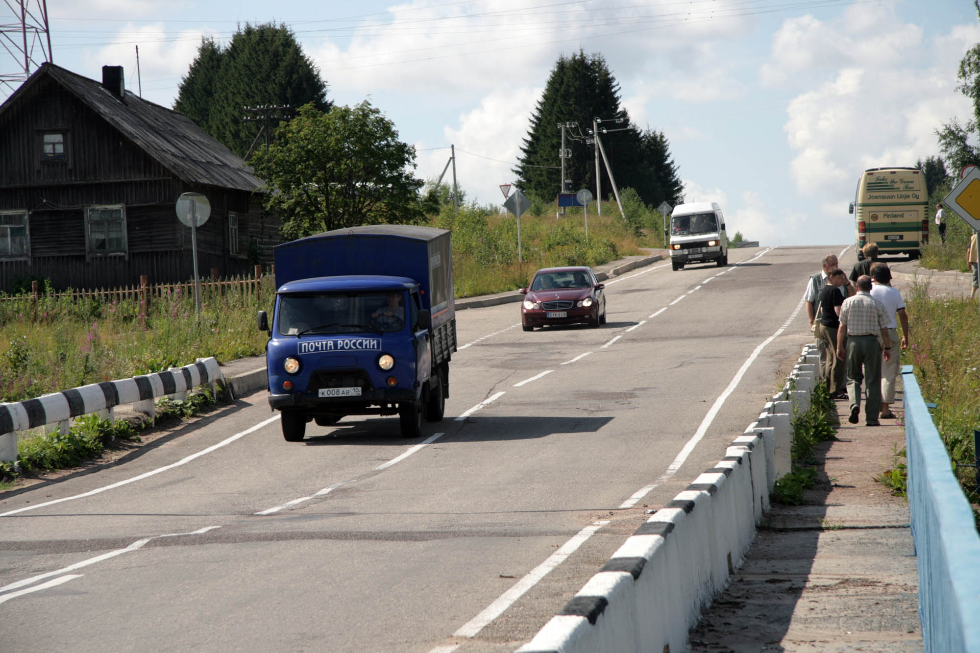 Kolatselkä village in Karelia, Russia